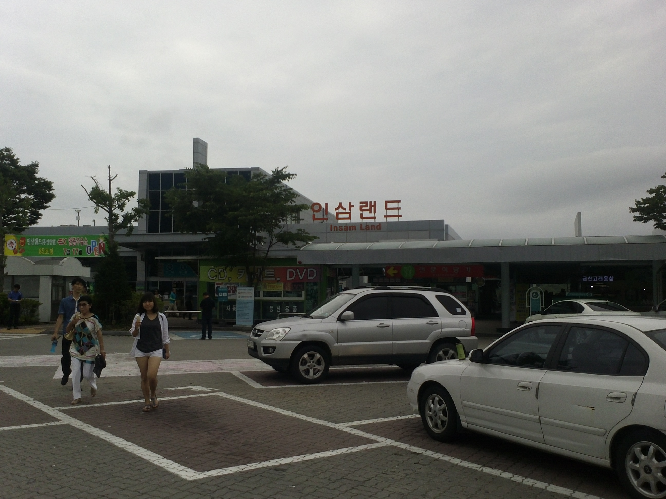 Insam Land Resting Place, Downward on Daejeon-Tongyoung Express way